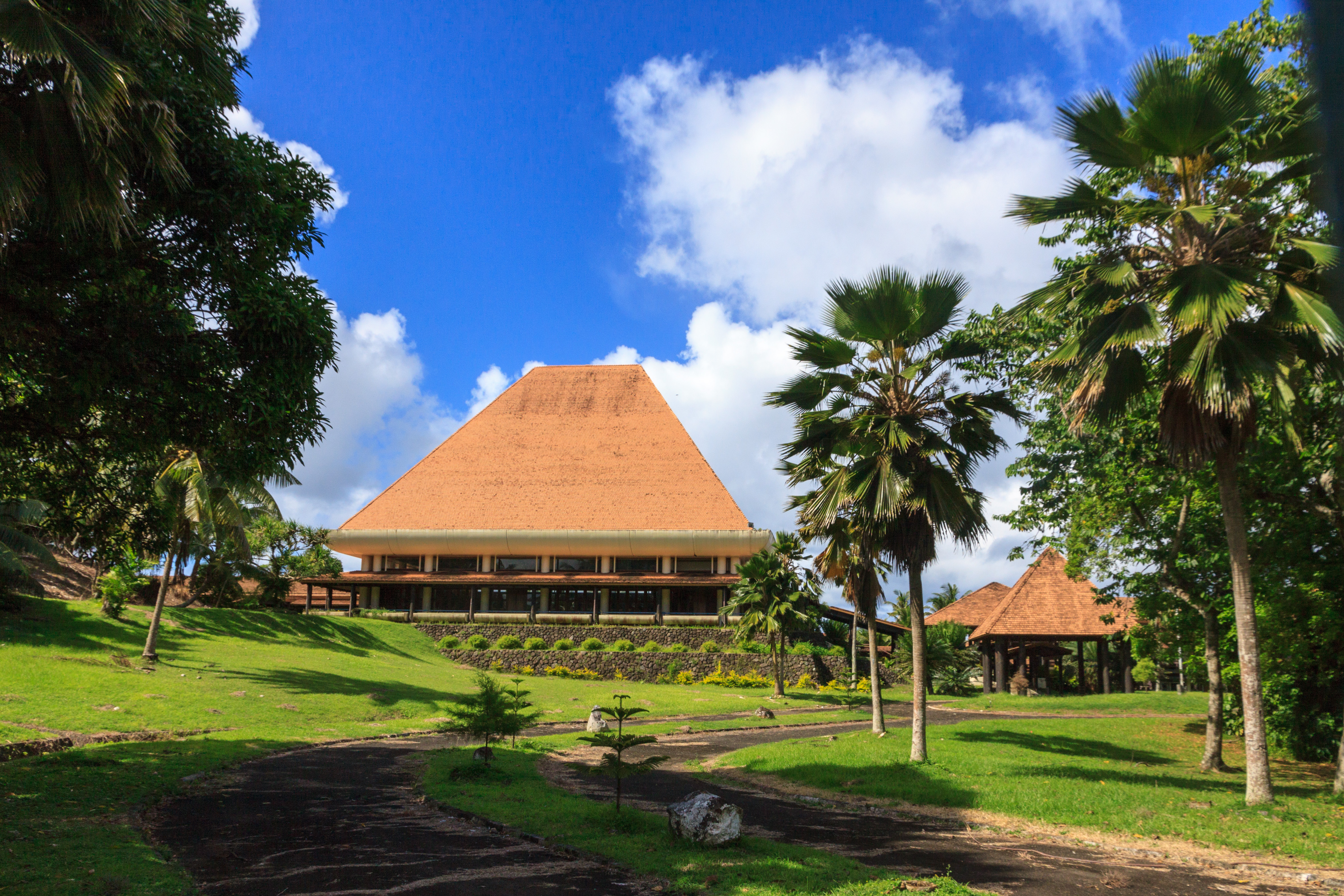 Parliament Building (Suva)